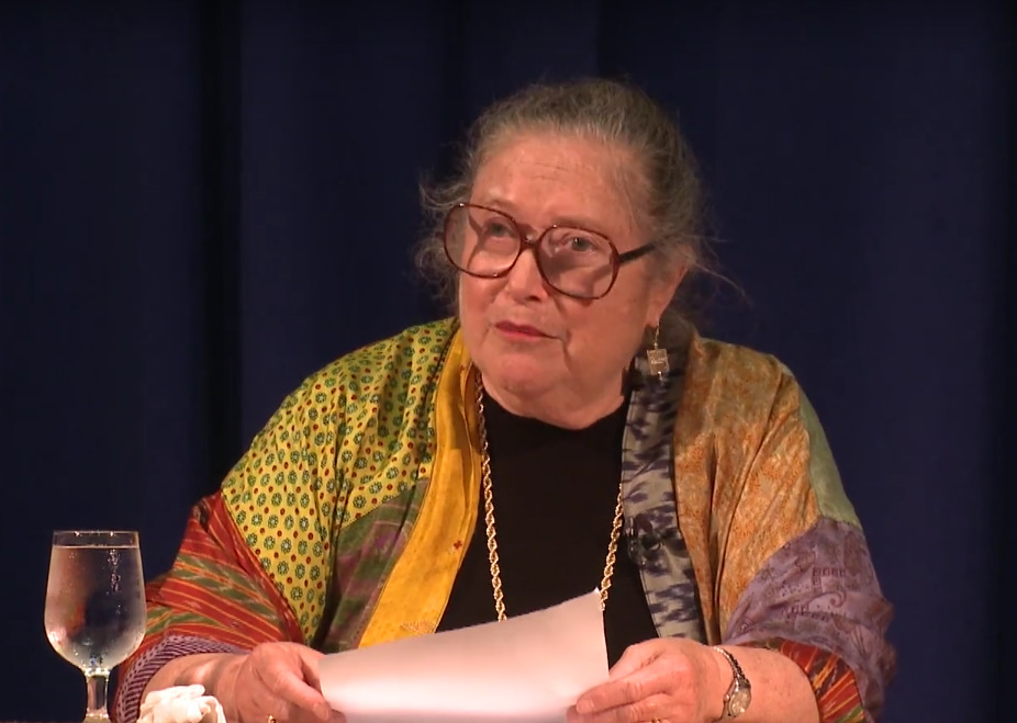 American Indologist Wendy Doniger giving her Charles Homer Haskins Prize Lecture